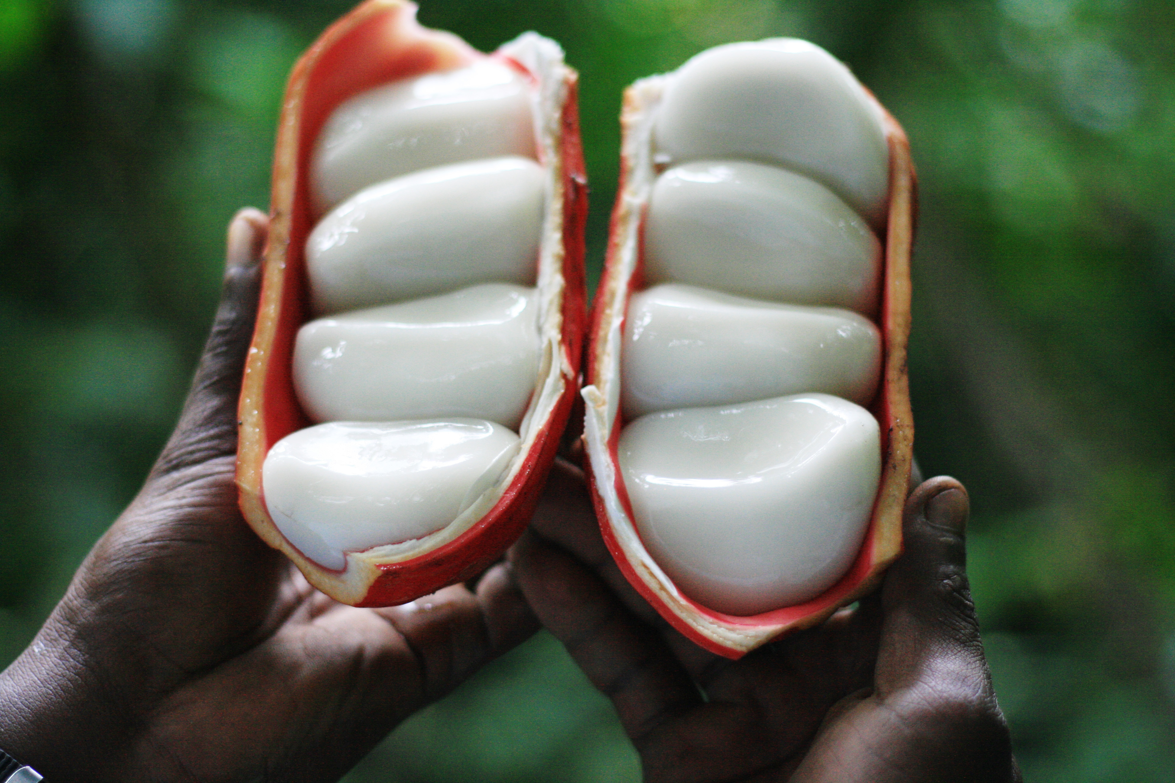 Cola pachycarpa K. Schum. or komngoei in bassa language. Non timber forest products of Tayap (Cameroon)